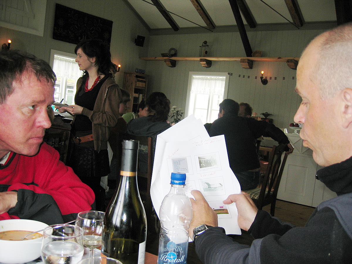 Flatey á Breiðafirði, Iceland photo by Salvor Gissurardottir in July 2006 Viktor Arnar Ingólfsson (right) criminal writer talks about his book Flateyjargátan (the Flatey mystery) in Samkomuhúsið (the meeting hall) in Flatey.